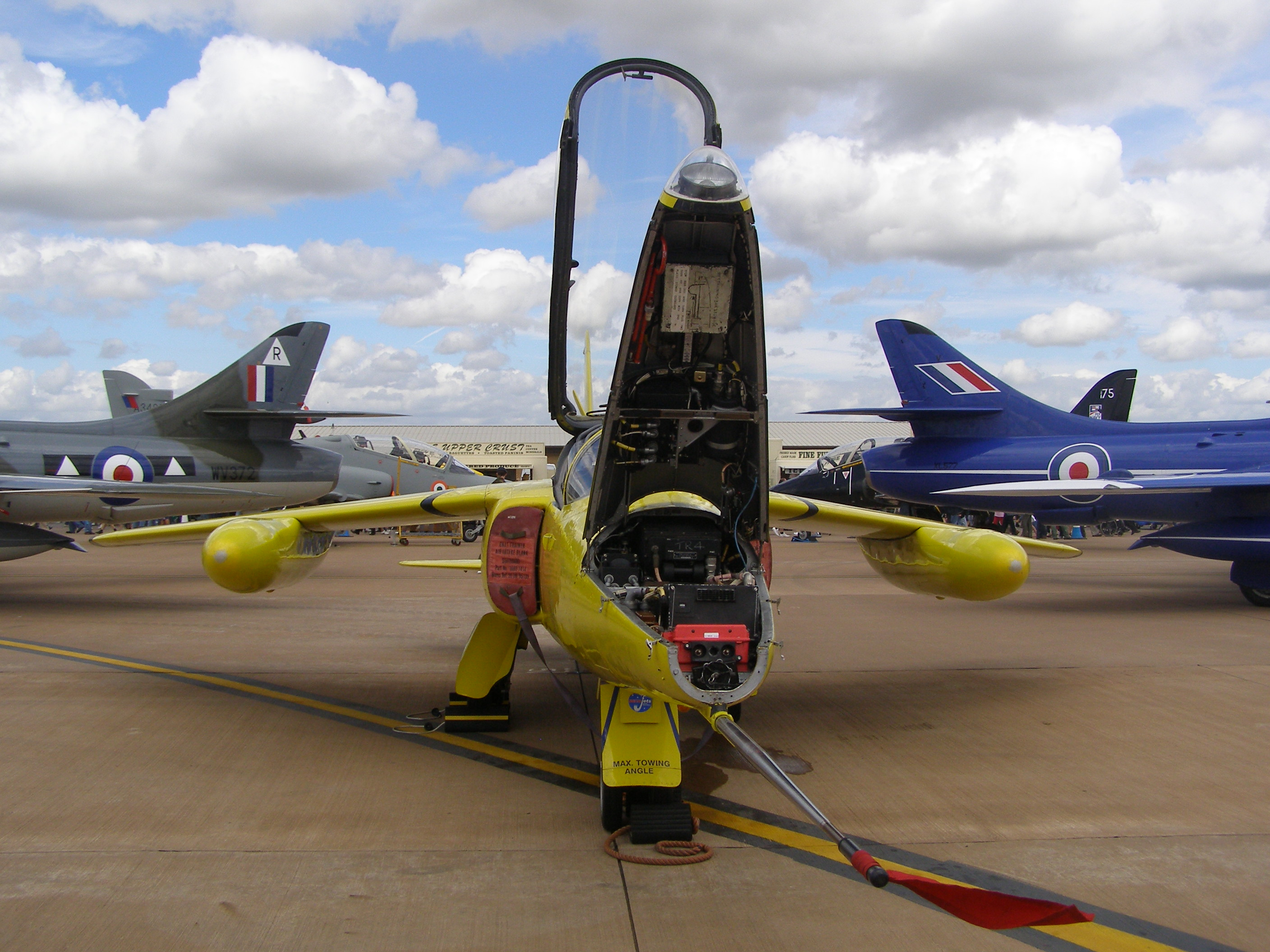 "G-MOUR" a former Royal Air Force Hawker Siddeley Gnat privately owned but painted as "XR991" to represent and aircraft of the "Yellowjacks" aerobatic team. At the Royal International Air Tattoo, RAF Fairford, England